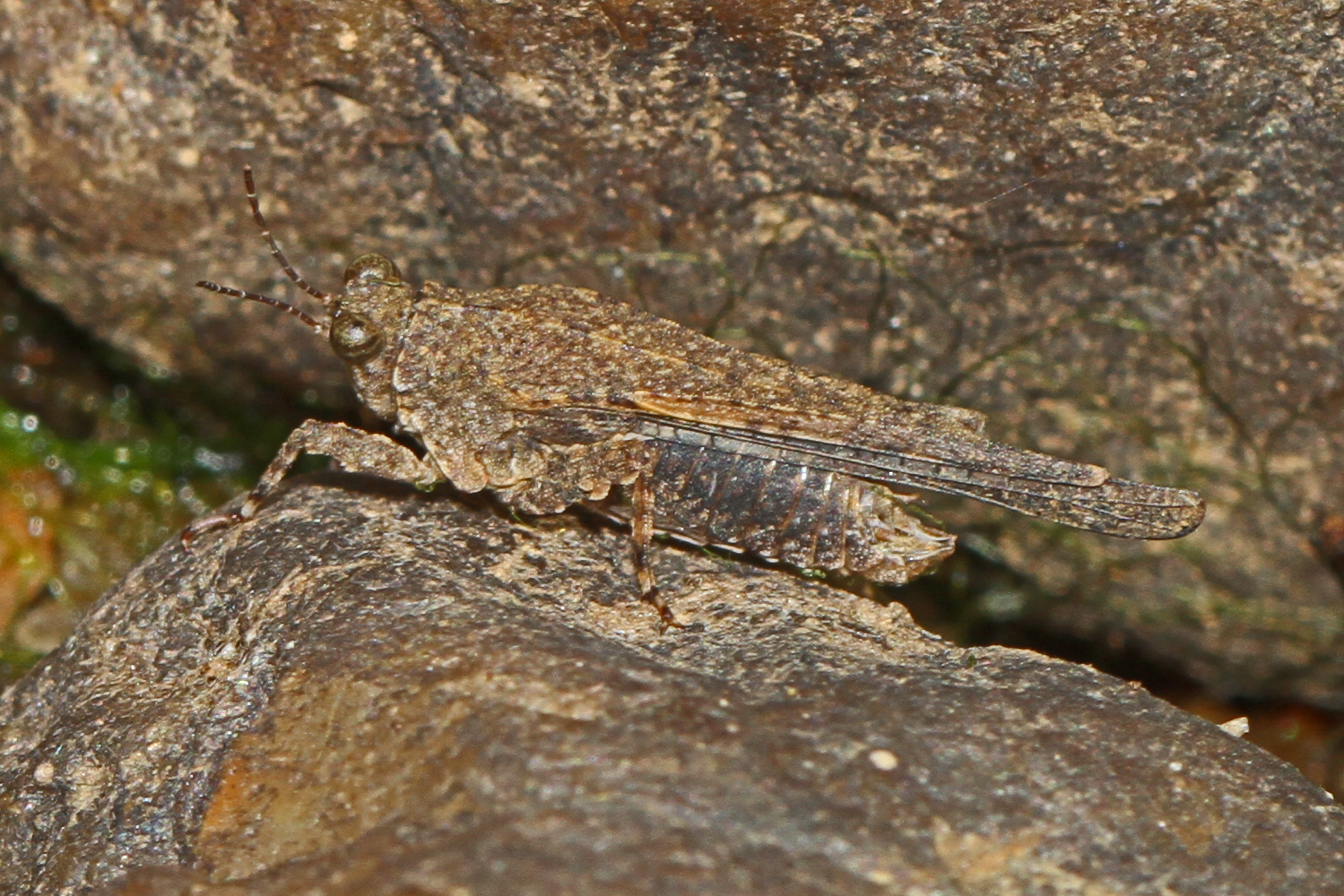 Obscure Pygmy Grasshopper - Tetrix arenosa, Prince William Forest Park, Triangle, Virginia.